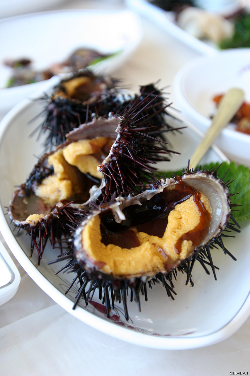 Korean cuisine